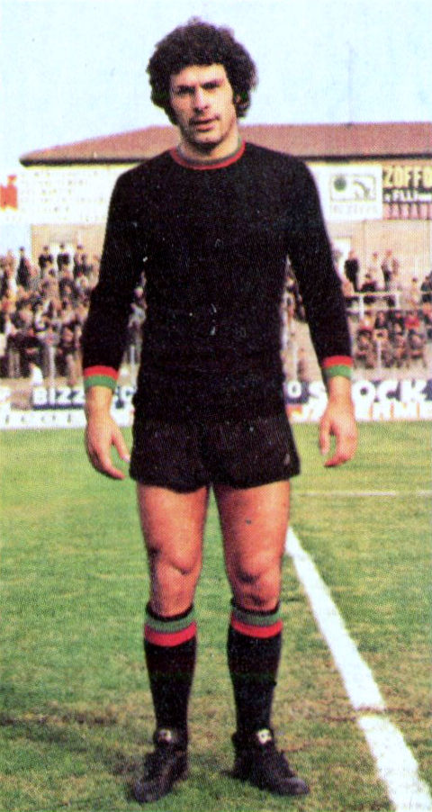 Italian football goalkeeper Aldo Nardin with Ternana Calcio in the 1974–75 season.